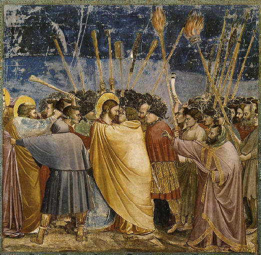 The disciple on the left, who wounds a soldier with his knife, is Saint Peter.